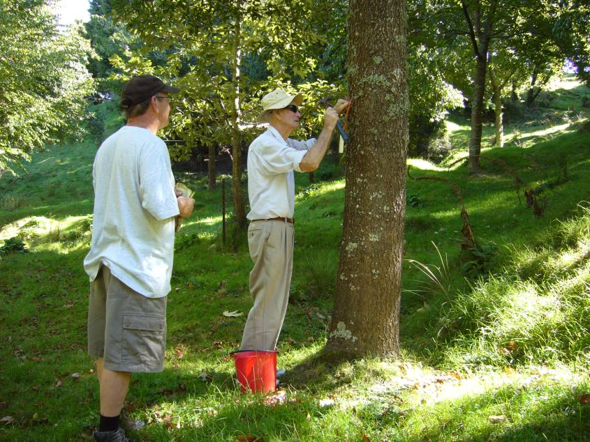 Hackfalls Arboretum, Tiniroto, Gisborne, New Zealand. Bob Berry attaches a label to a tree (on the left: Dick Bos) picture taken by Wilma Verburg, 2007/03/24